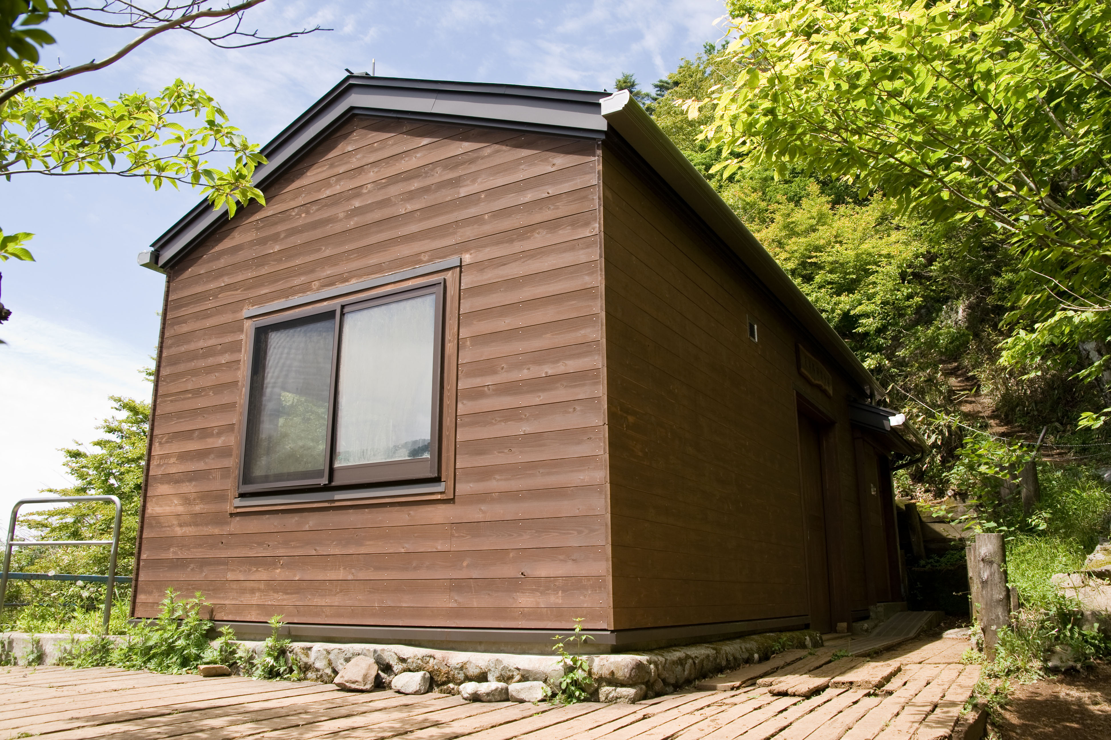 Inukoeji hinangoya ("Inukoeji shelter hut") in the Tanzawa Mountains, Kanagawa Prefecture, Japan